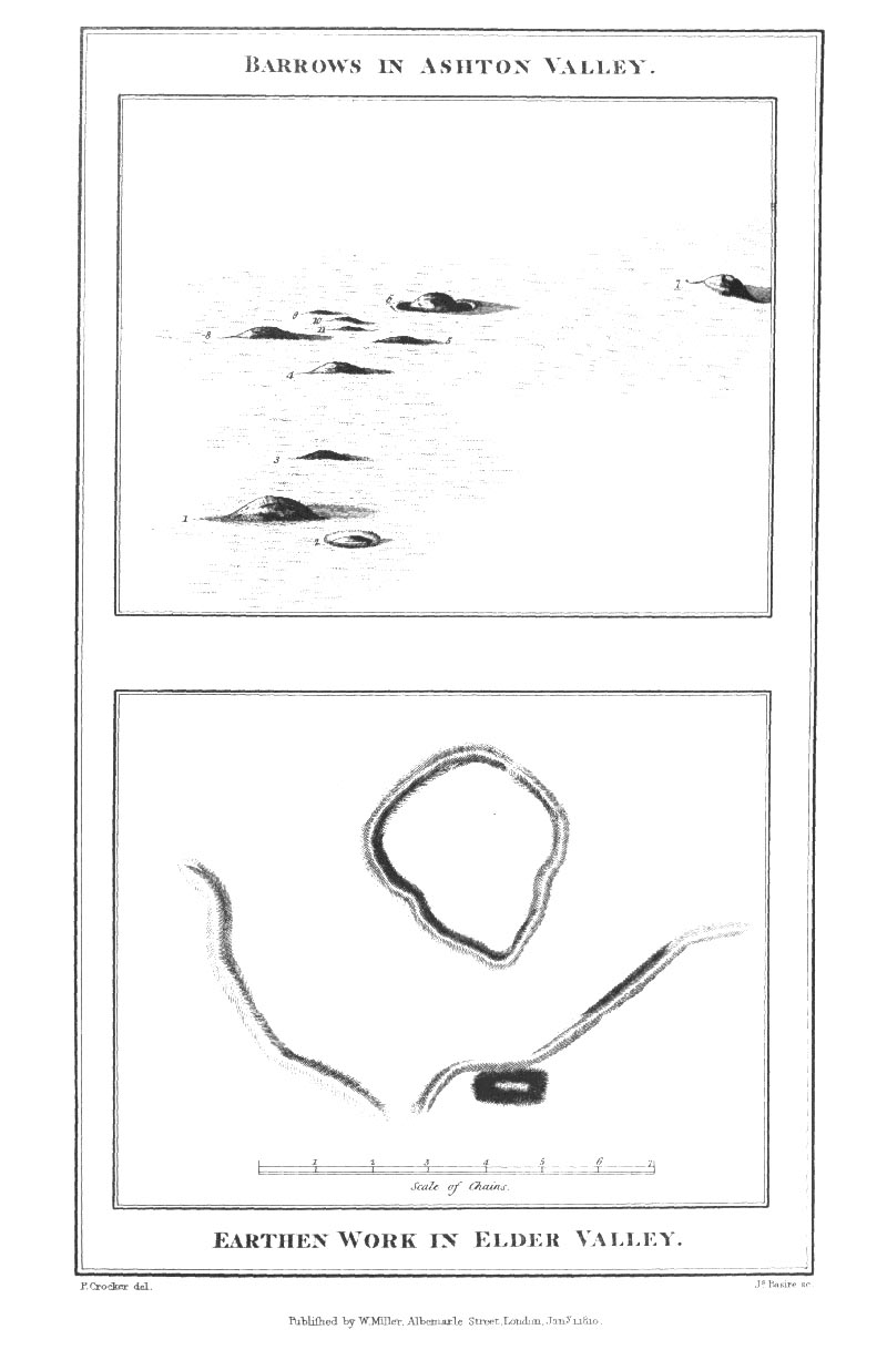 A pencil sketch of the tumuli forming the Ashton Valley Barrow group and a plan of earthworks at Elder Valley, wiltshire